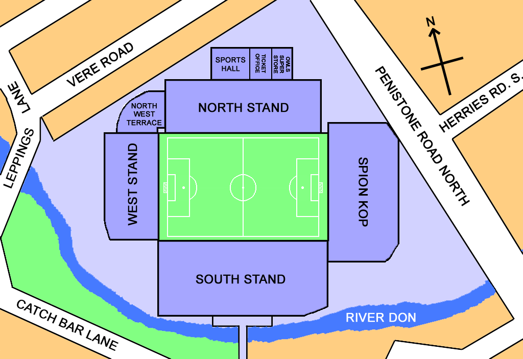 Plan of Hillsborough Stadium, Sheffield.